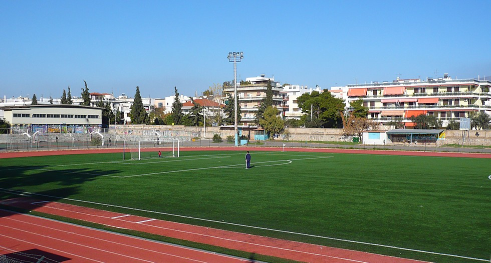 The picture depicts the Intermunicipality Playfield of Halandri "Nikos Perkizas".